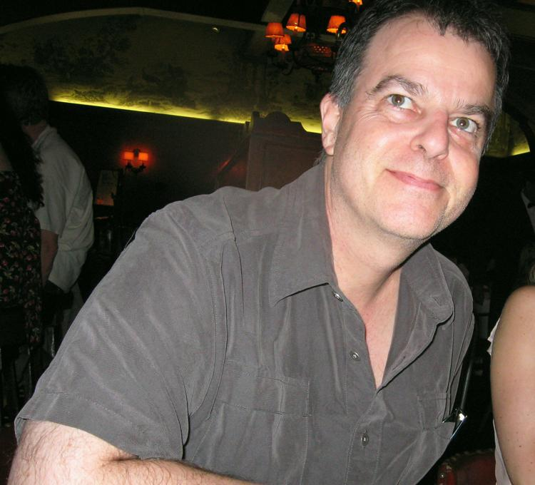 Adam Parfrey at Musso & Frank's, Hollywood.